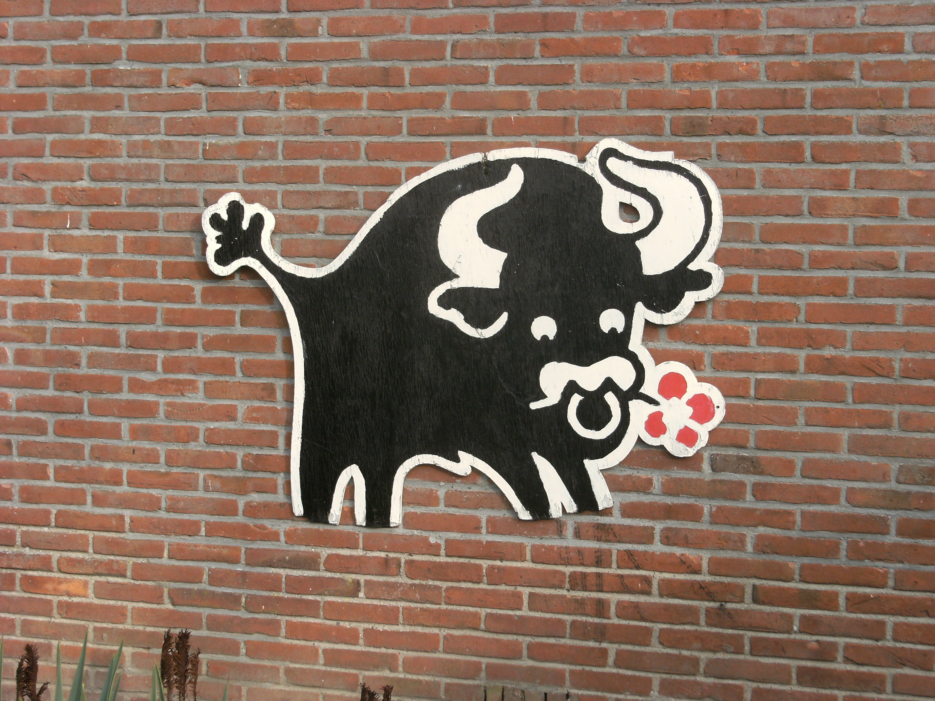 Bull painting Nagele.